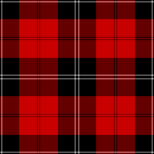 Ramsay tartan, as published in the Vestiarium Scoticum. Modern thread count: Bk8 W4 Bk56 R60 Bk2 R6.